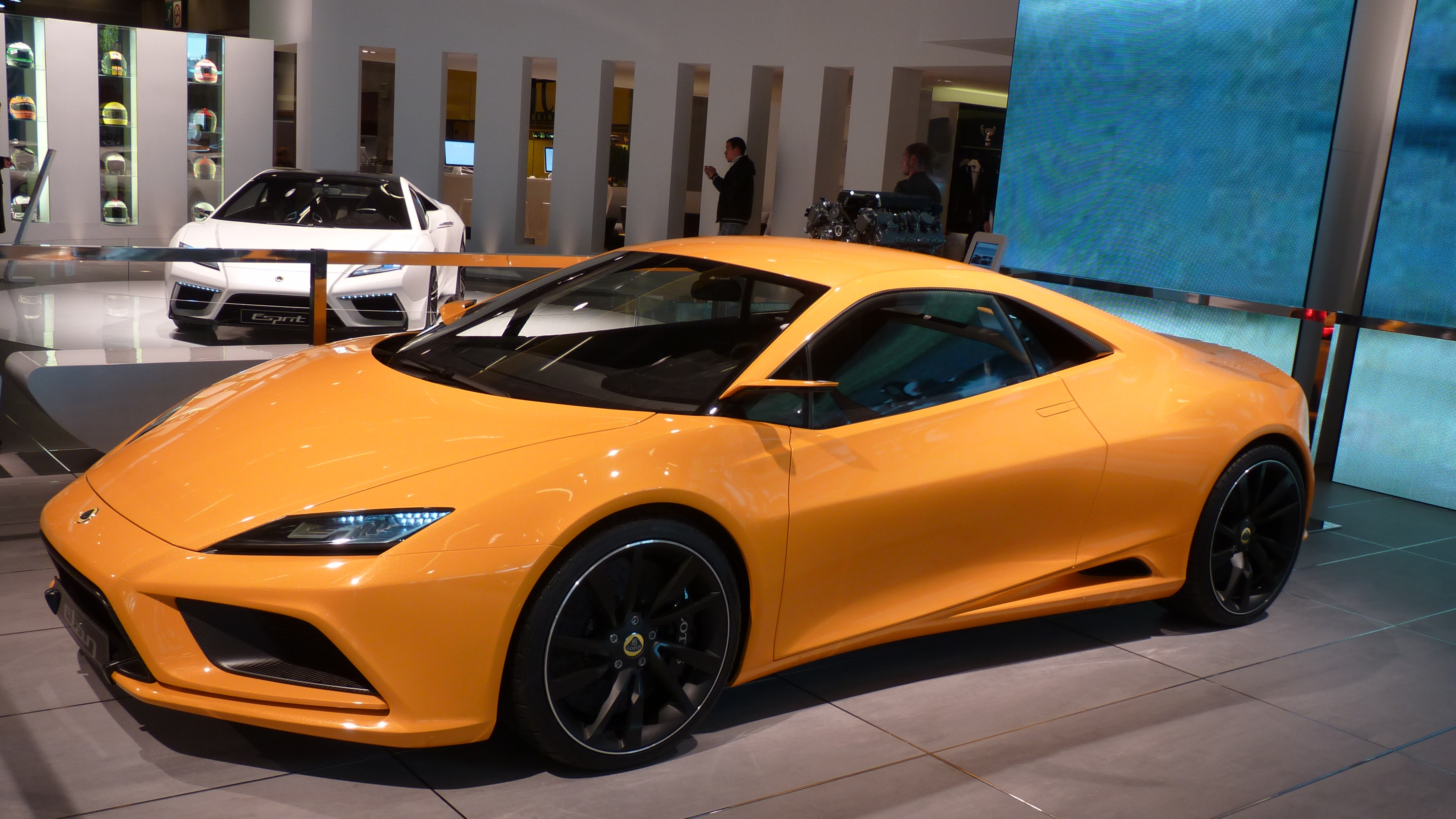 A Lotus Elan at the Paris Motor Show.